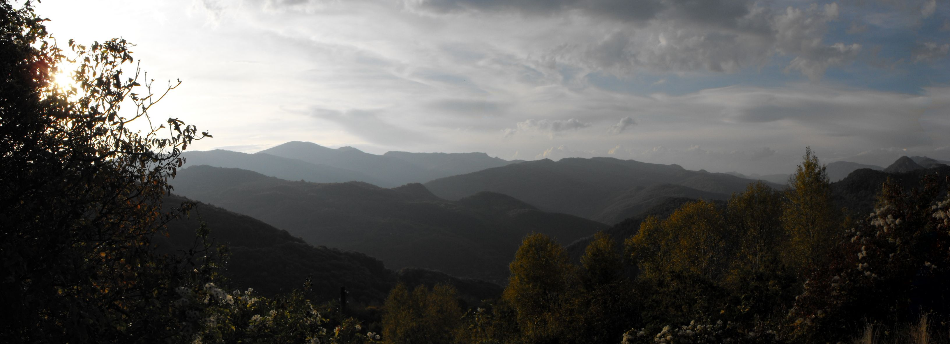 Autumn in western Bulgaria